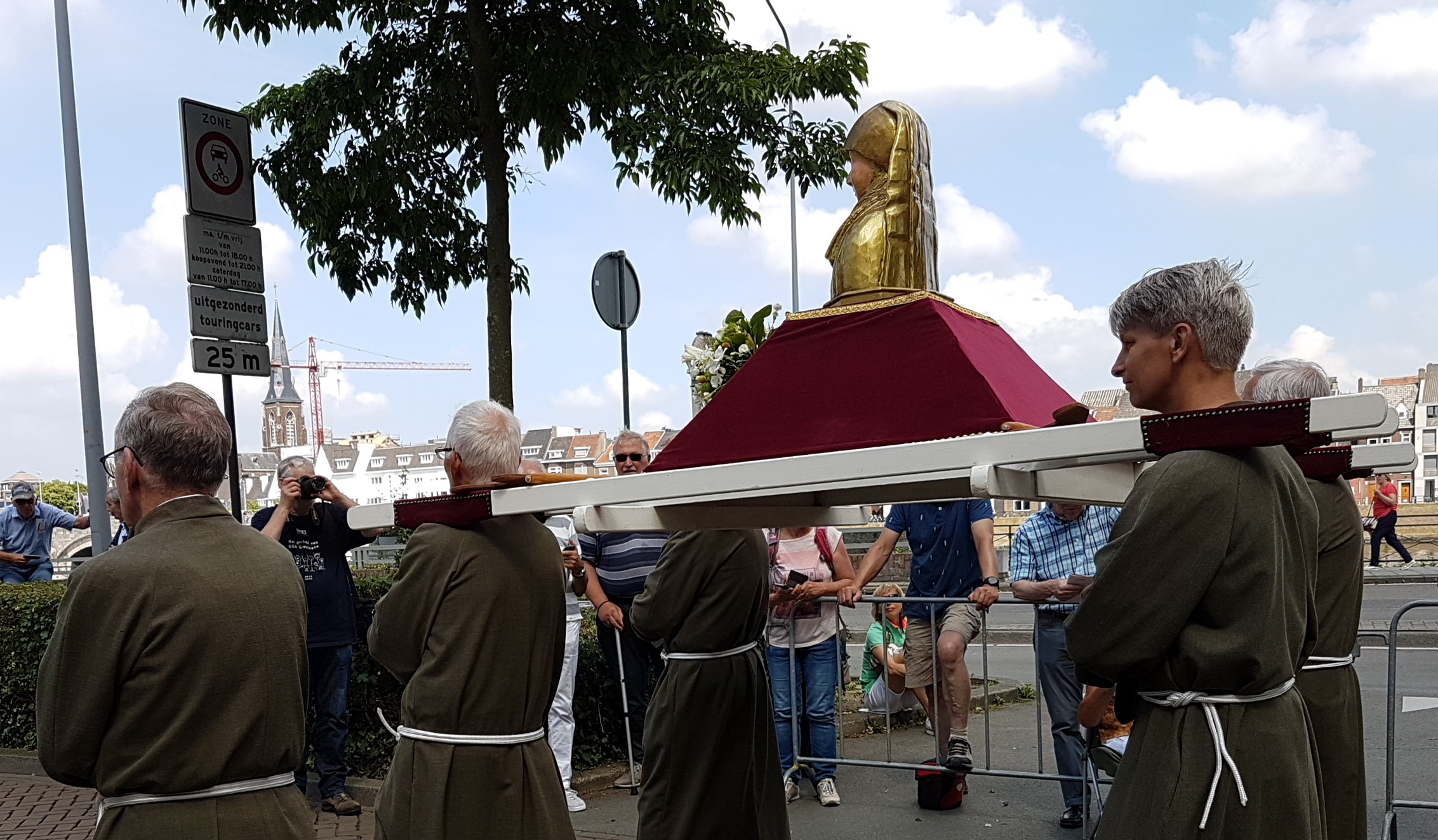 Participants in a historic religious procession during the 2018 Heiligdomsvaart (Relics Pilgrimage) in Maastricht, Netherlands. The history of this seven-yearly catholic pilgrimage goes back to the Middle Ages. The first 'modern' version took place in 1874. On both Sundays of the 10-day festival, a procession is held in which the main relics and other devotional objects are exhibited. This photo was taken at Het Bat during the (second) procession on Sunday 3 June 2018. This particular group is a porters guild from nearby Susteren. The members carry and escort the reliquary bust of Saint Amalberga.